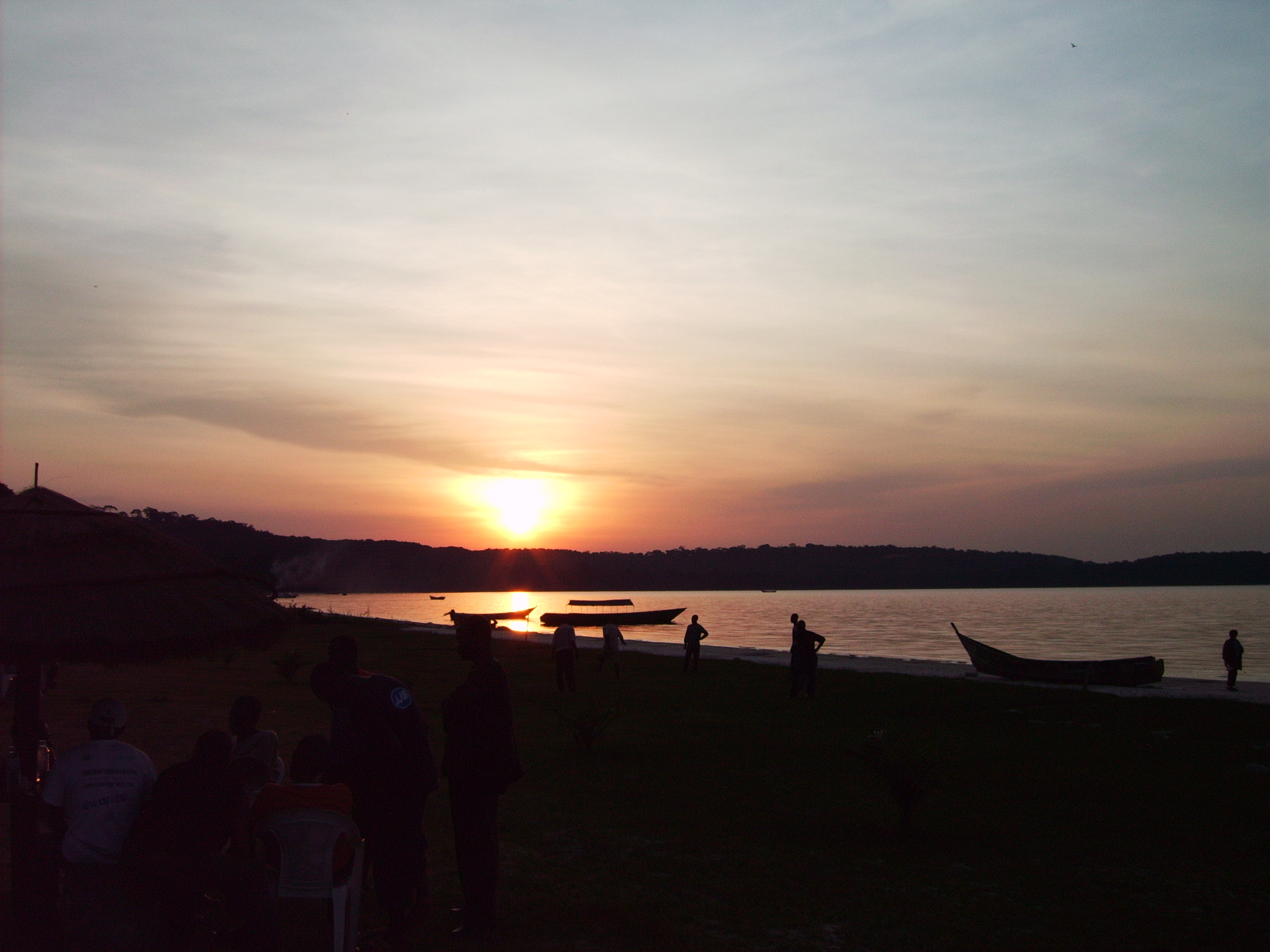 The scenic beach of Kalangala, Lake Victoria in Uganda. Photo by Frederick "FN" Noronha.